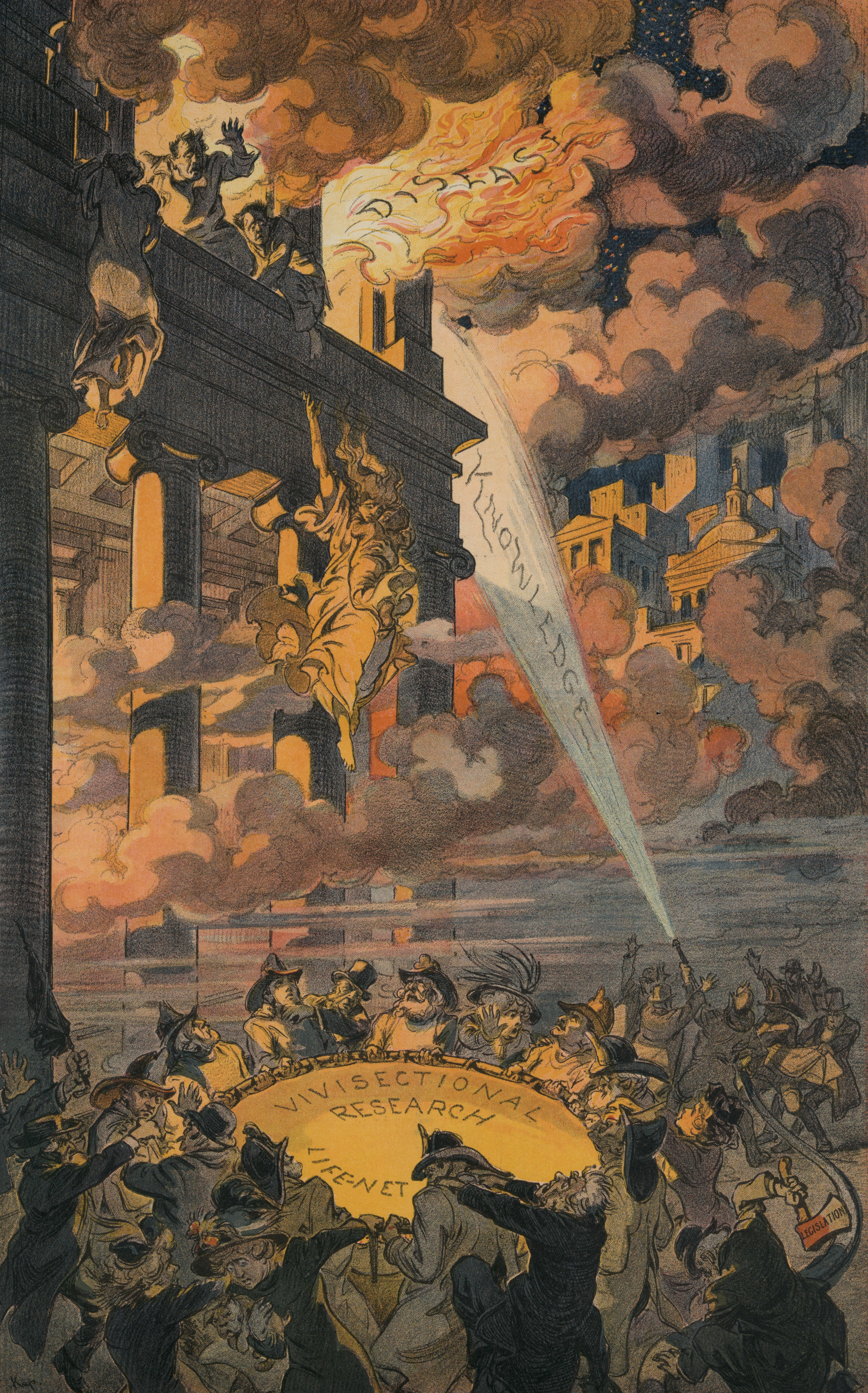 Title: "Away with that life-net!" / Kep. Abstract/medium: 1 photomechanical print : offset, color.